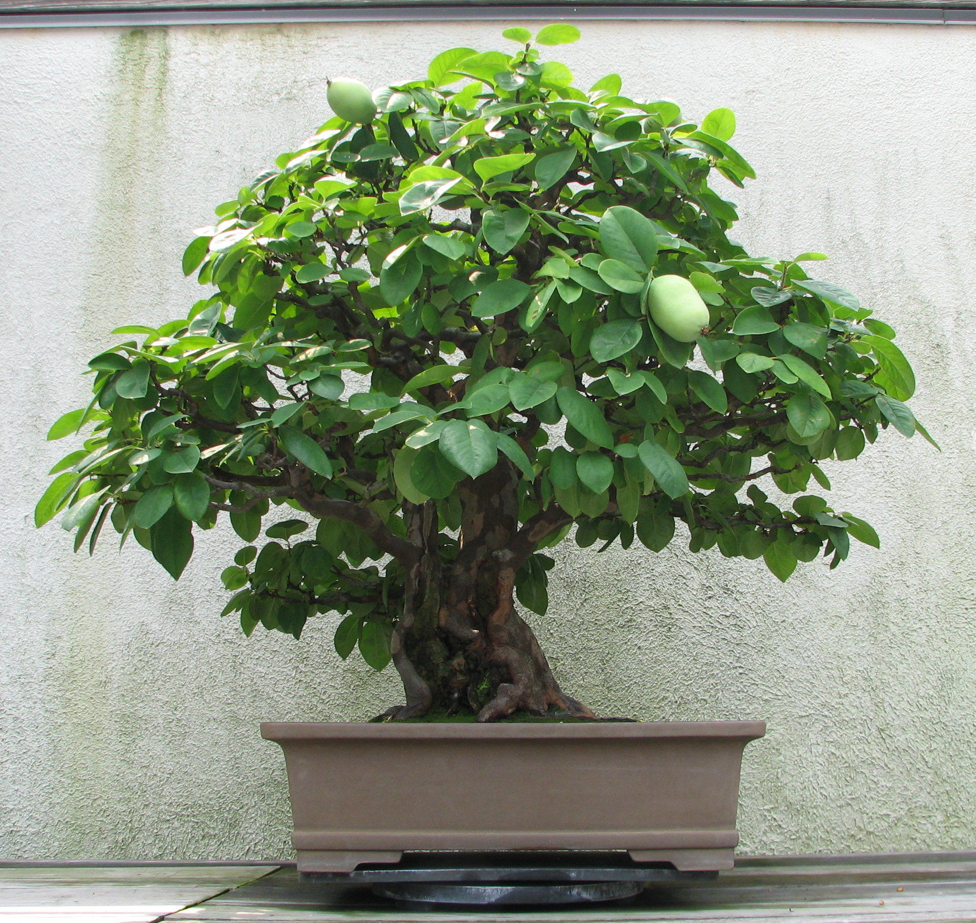 A Chinese Quince (Pseudocydonia sinensis) bonsai on display at the National Bonsai & Penjing Museum at the United States National Arboretum. According to the tree's display placard, it has been in training since 1875. It was donated by Etsusaburo Shina. The is the "back" of the tree.